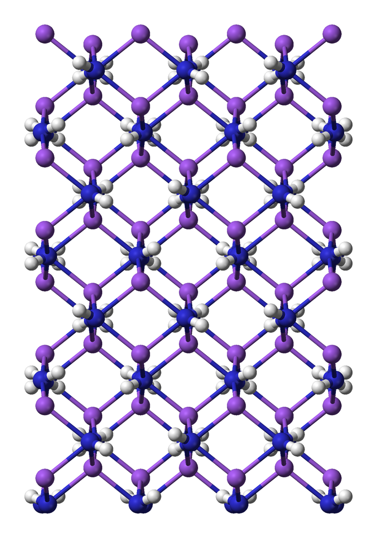 Ball-and-stick model of part of the crystal structure of sodium amide, NaNH2. X-ray crystallographic data from Allan Zalkin and David H. Templeton (1956). "The Crystal Structure Of Sodium Amide". J. Phys. Chem. 60 (6): 821-823.